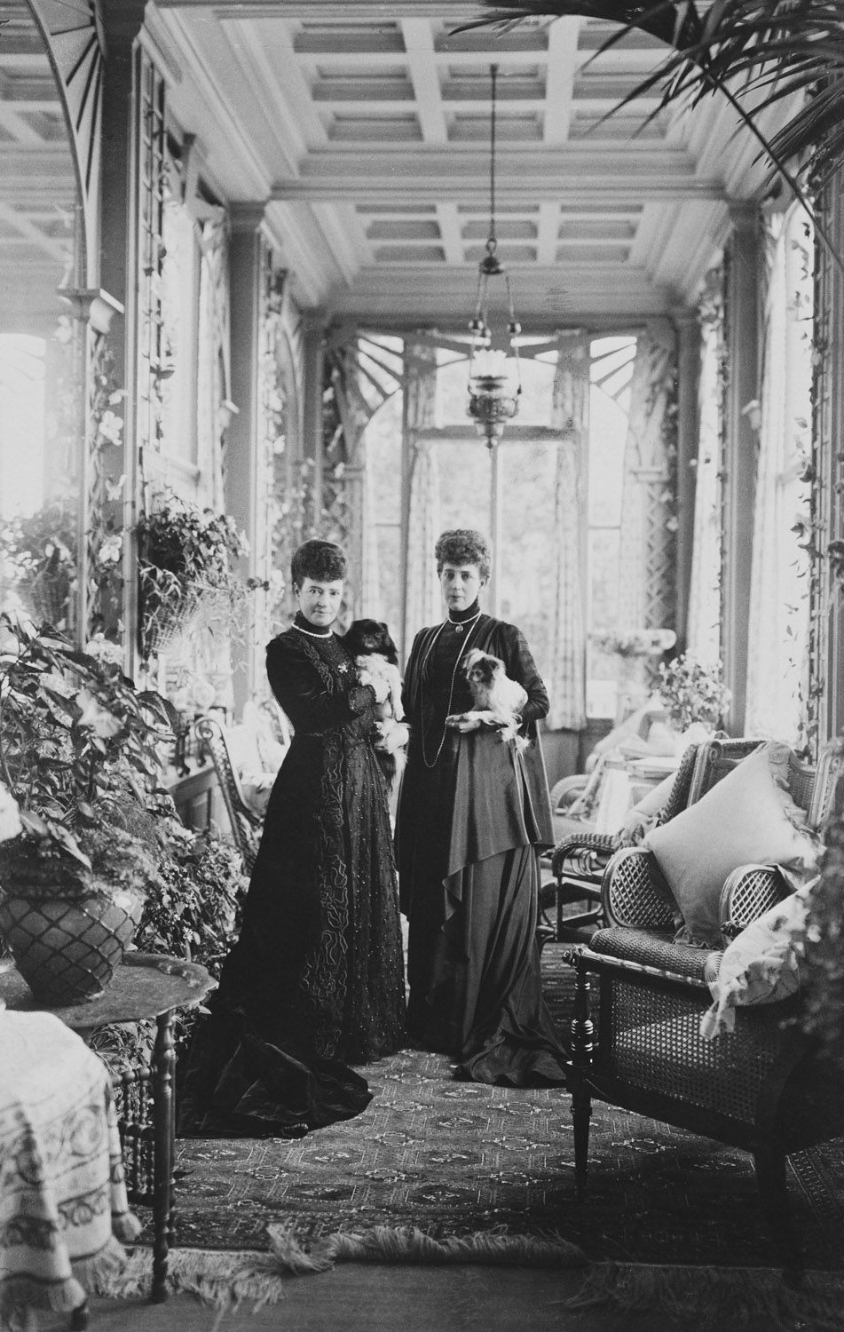 Alexandra of Denmark with her sister the Dowager Maria Feodorvna at Hvidore, Denmark circa 1911